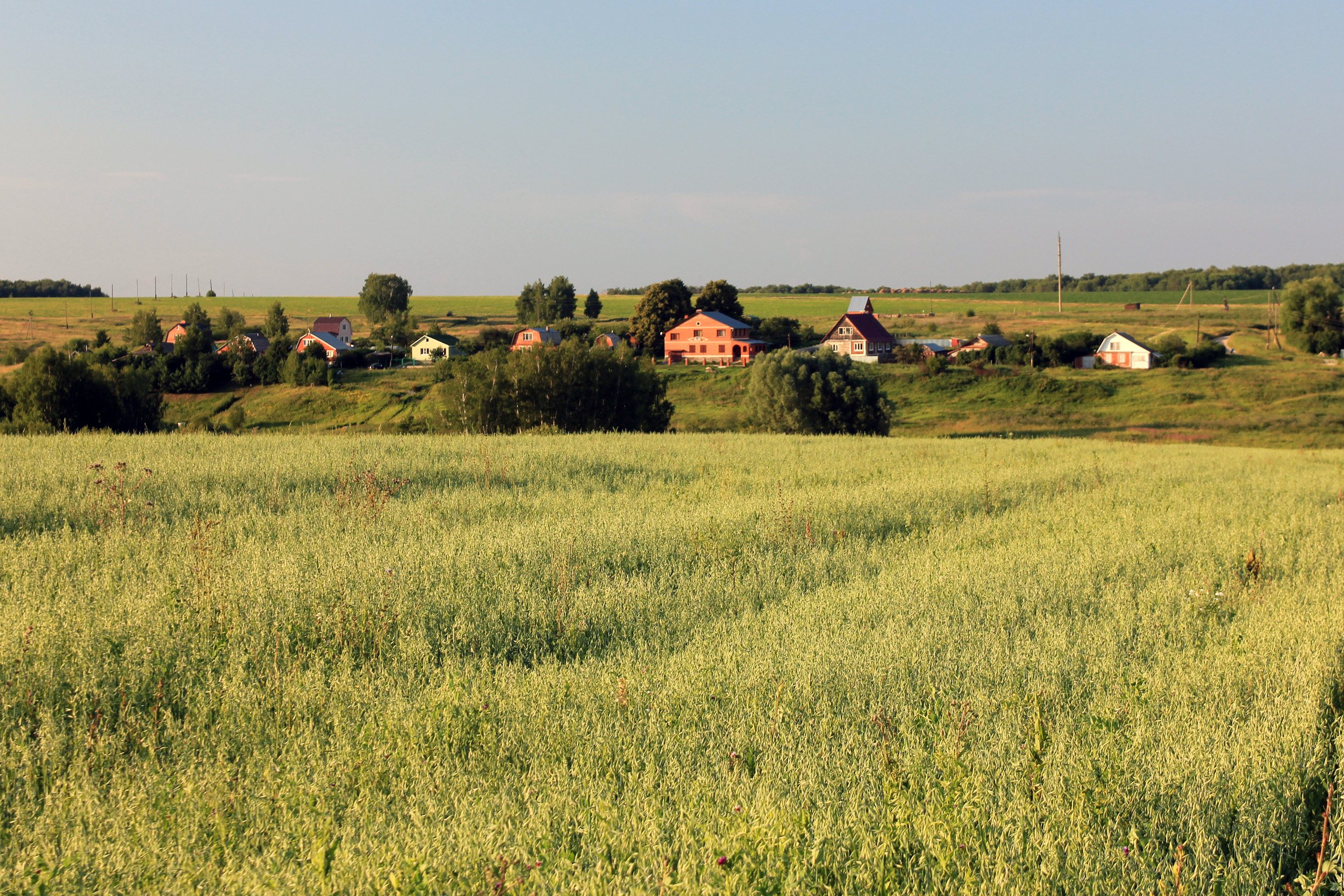 The village